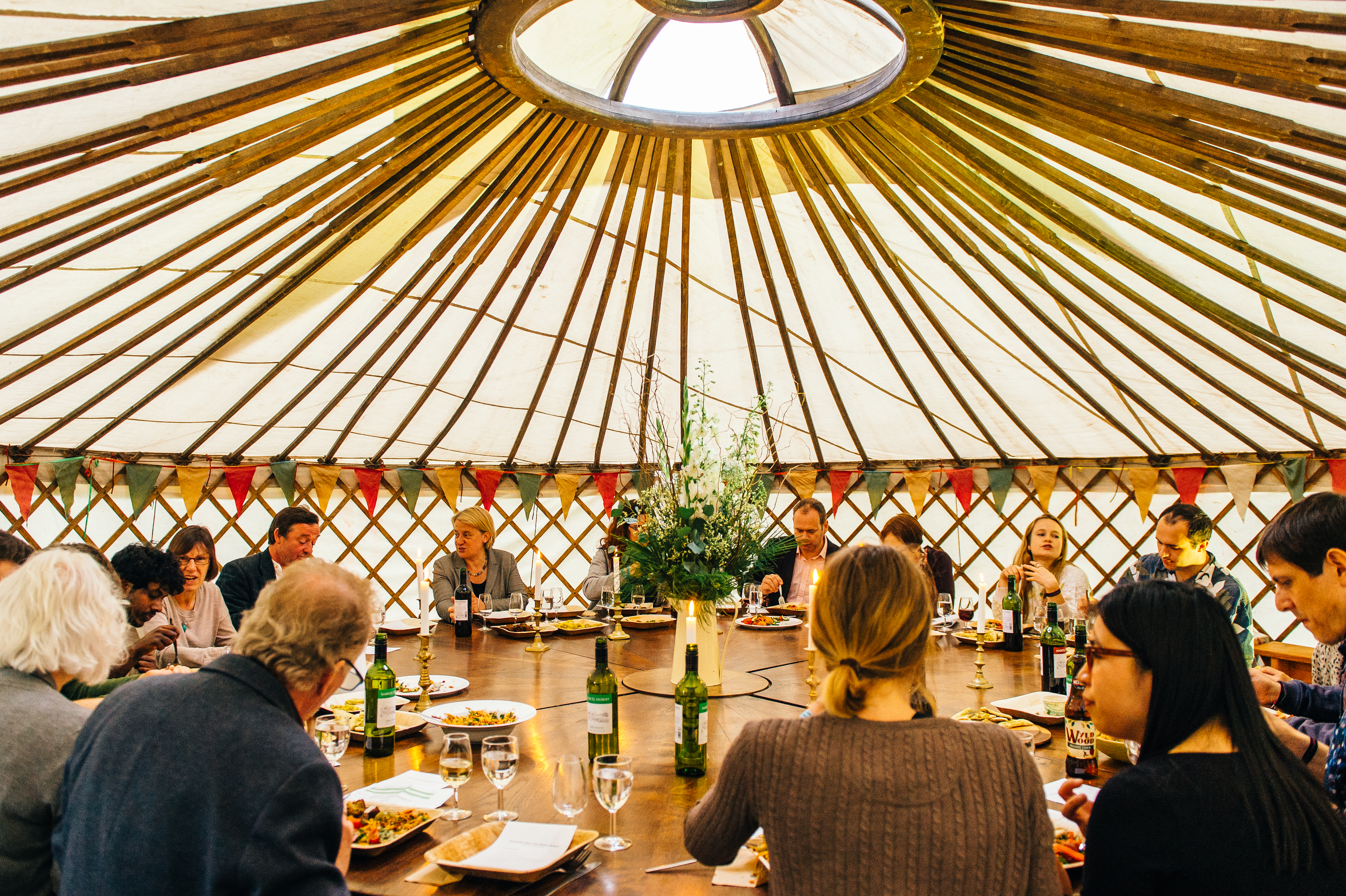 HowTheLightGetsIn Festival 2016 Long Table Banquet